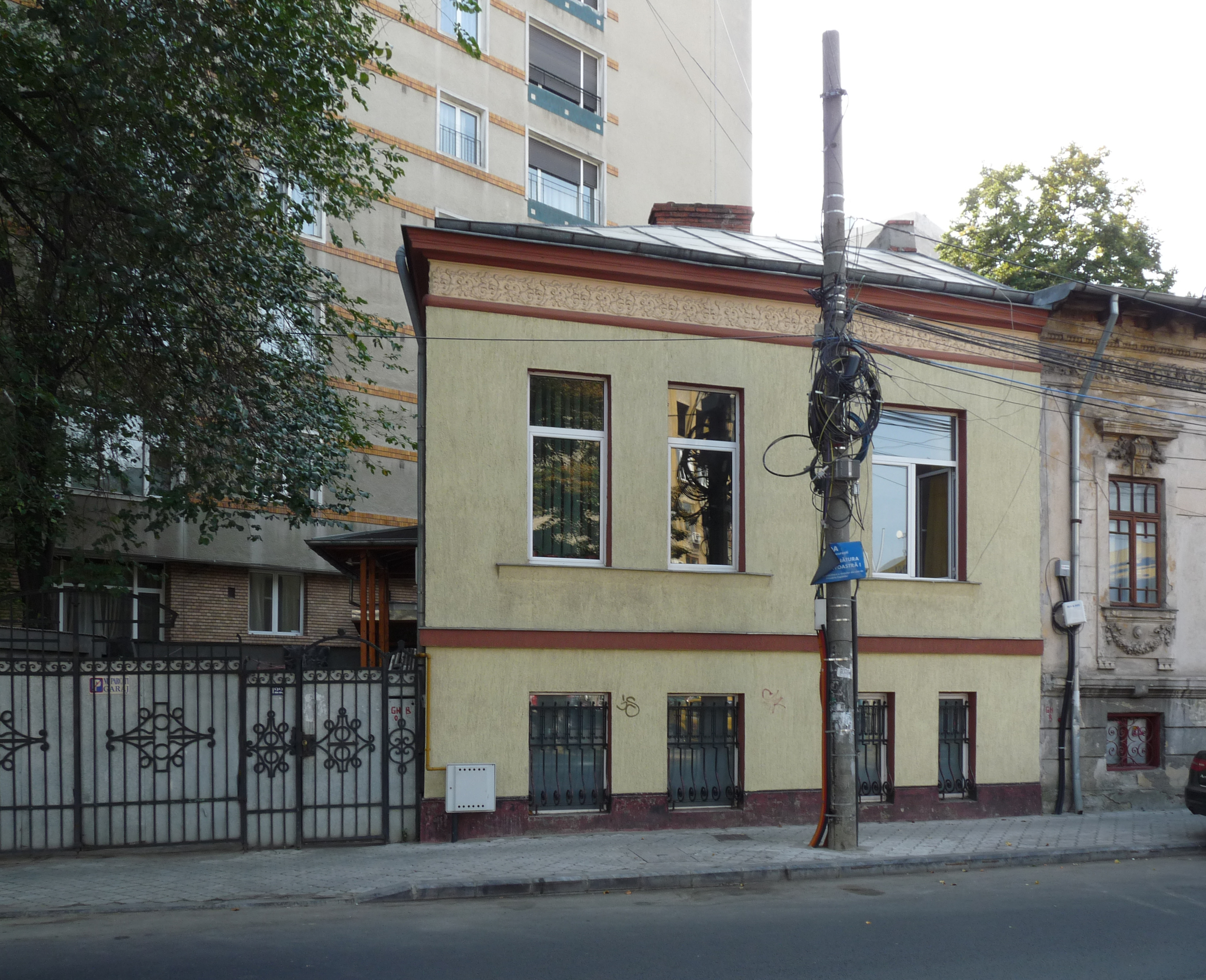 D. Panaitescu-Perpessicius house in M. Eminescu street, Bucharest, RomaniaRomână: Casa D. Panaitescu-Perpessicius din strada M. Eminescu, București, România